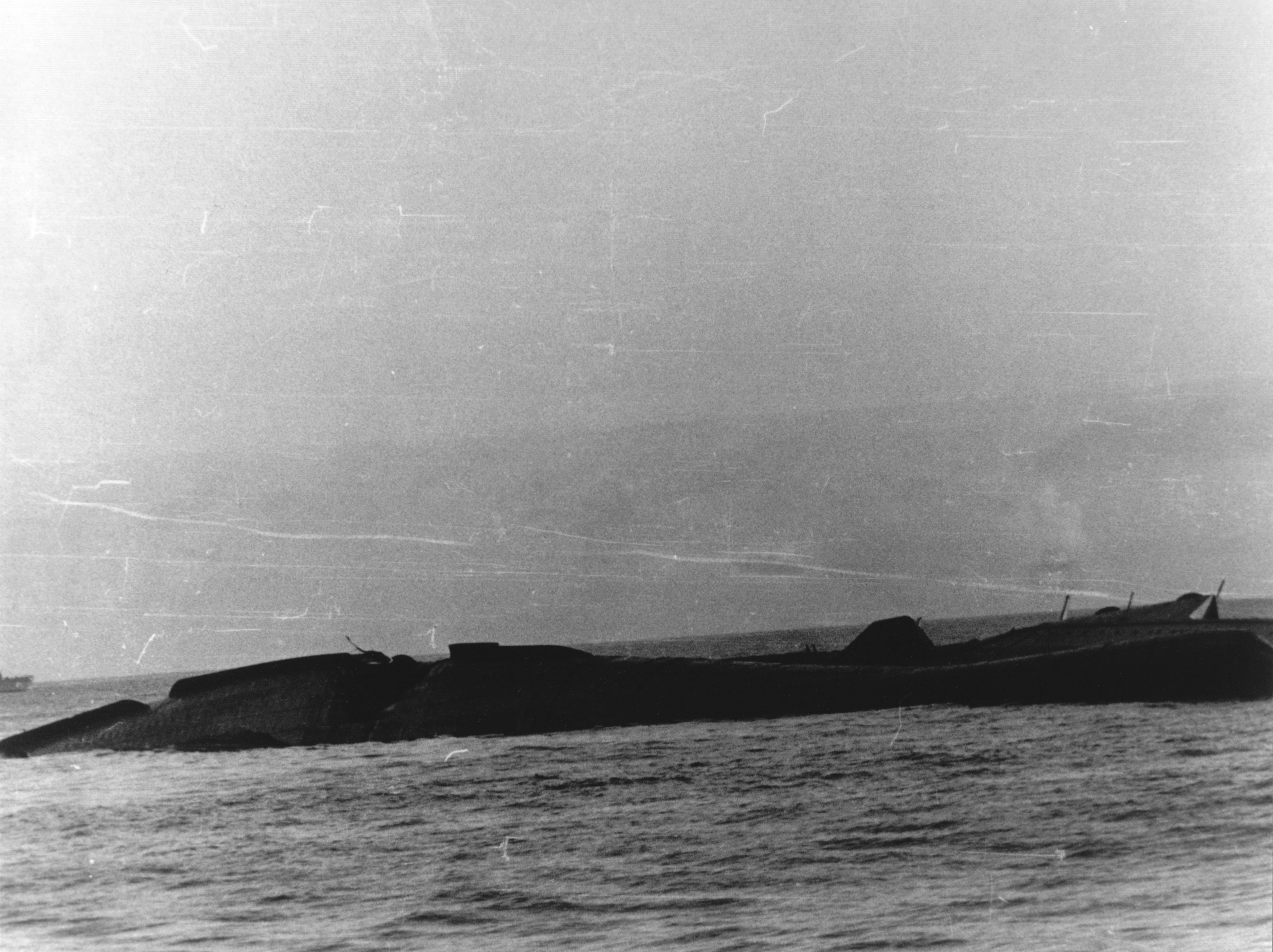 Battle of Midway, June 1942: USS Yorktown (CV-5) sinking, just after dawn on 7 June 1942, as seen from an accompanying destroyer. The ship has capsized to port, exposing the turn of her starboard bilge, with a large torpedo hole amidships severing the forward bilge keel. Yorktown's forefoot is at the extreme right. Her starboard forward 5-inch gun gallery can be seen further up her hull, with two 5"/38 gun barrels sticking out over its edge. The two larger thin objects sticking up, just aft of the 5-inch guns, are aircraft parking outriggers. When the ship's wreck was examined in May 1998, both guns were still in position, but the outriggers were gone.